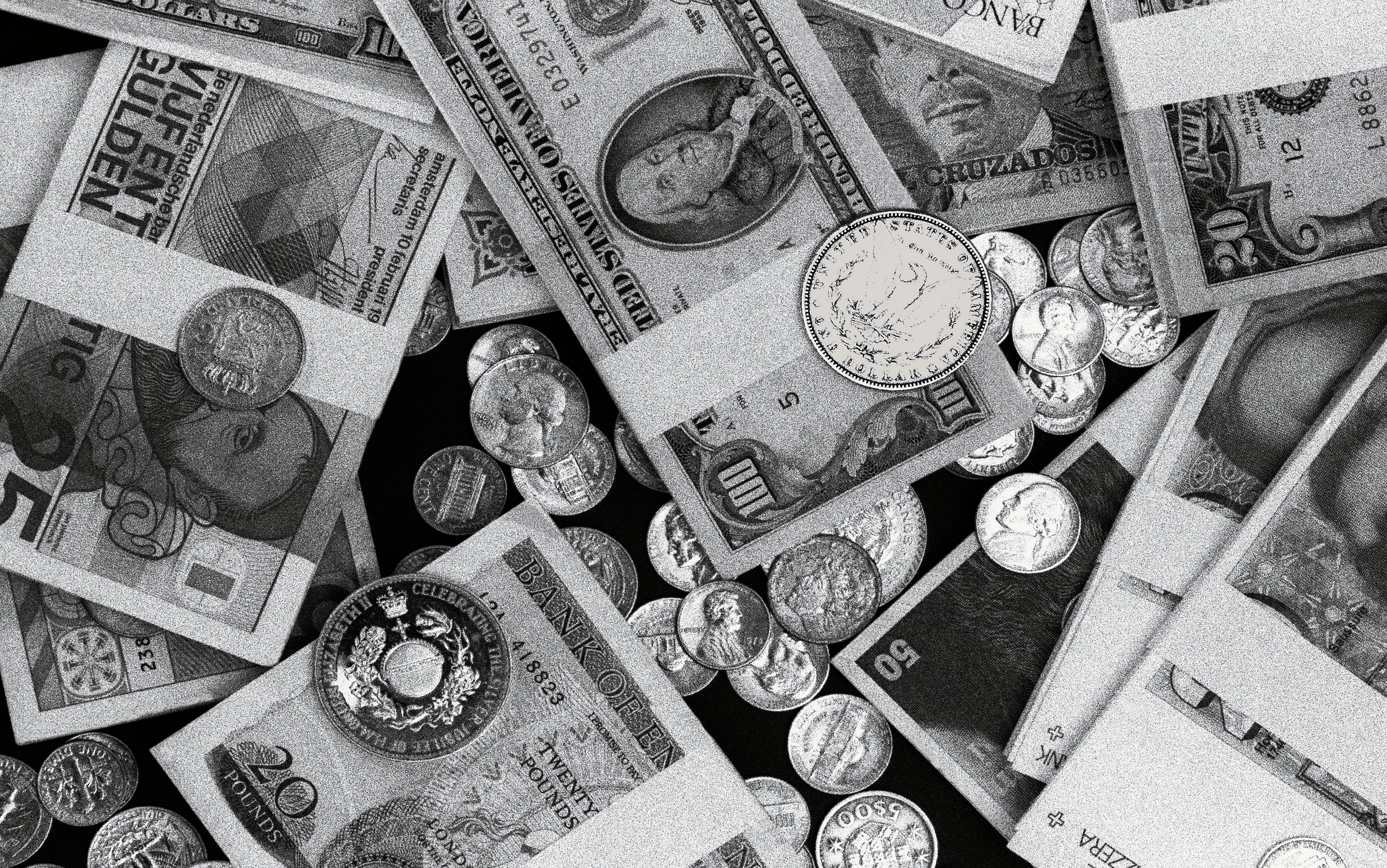 Money before Euro - Recording film grain 1000 asa